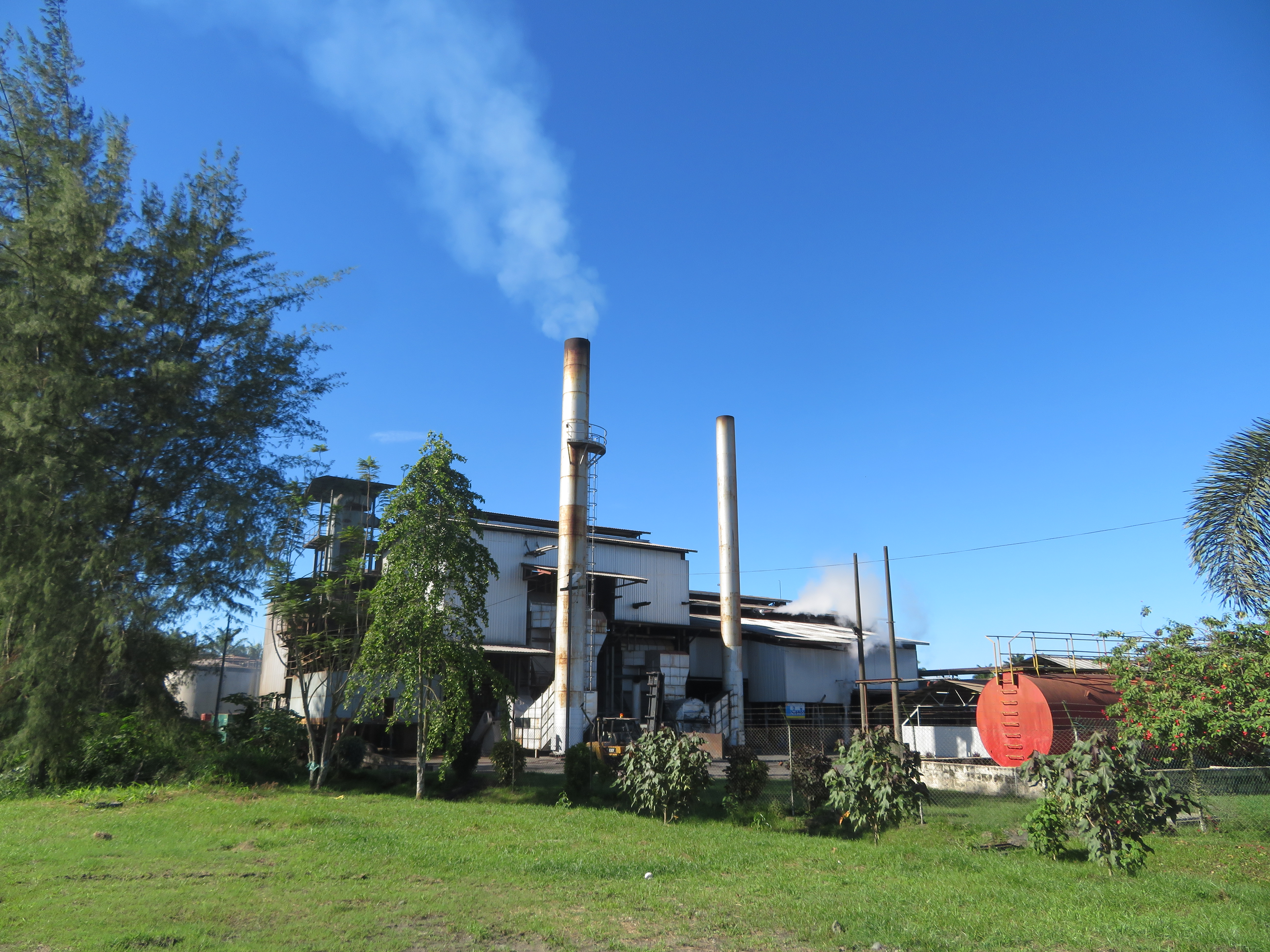 Tetere, Palm Oil Factory, Guadalcanal, Solomon Islands